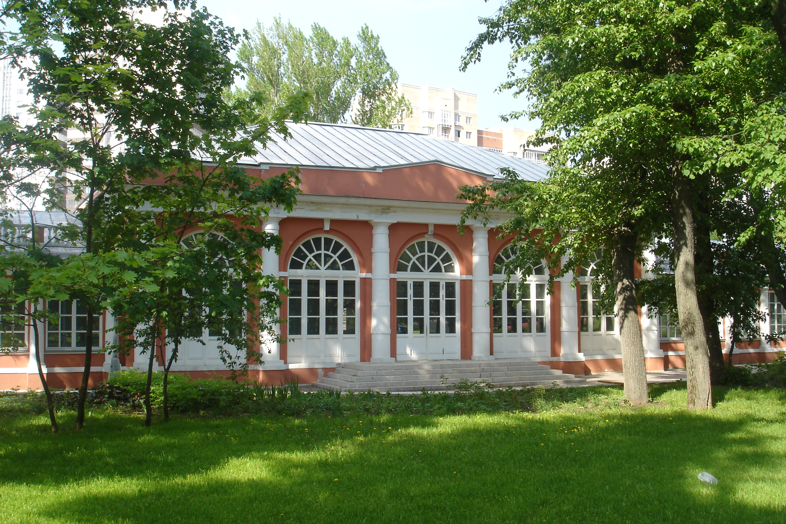 Vorontsovo manor Park. Architectural monument - northern pavilion, greenhouse. 18th century.